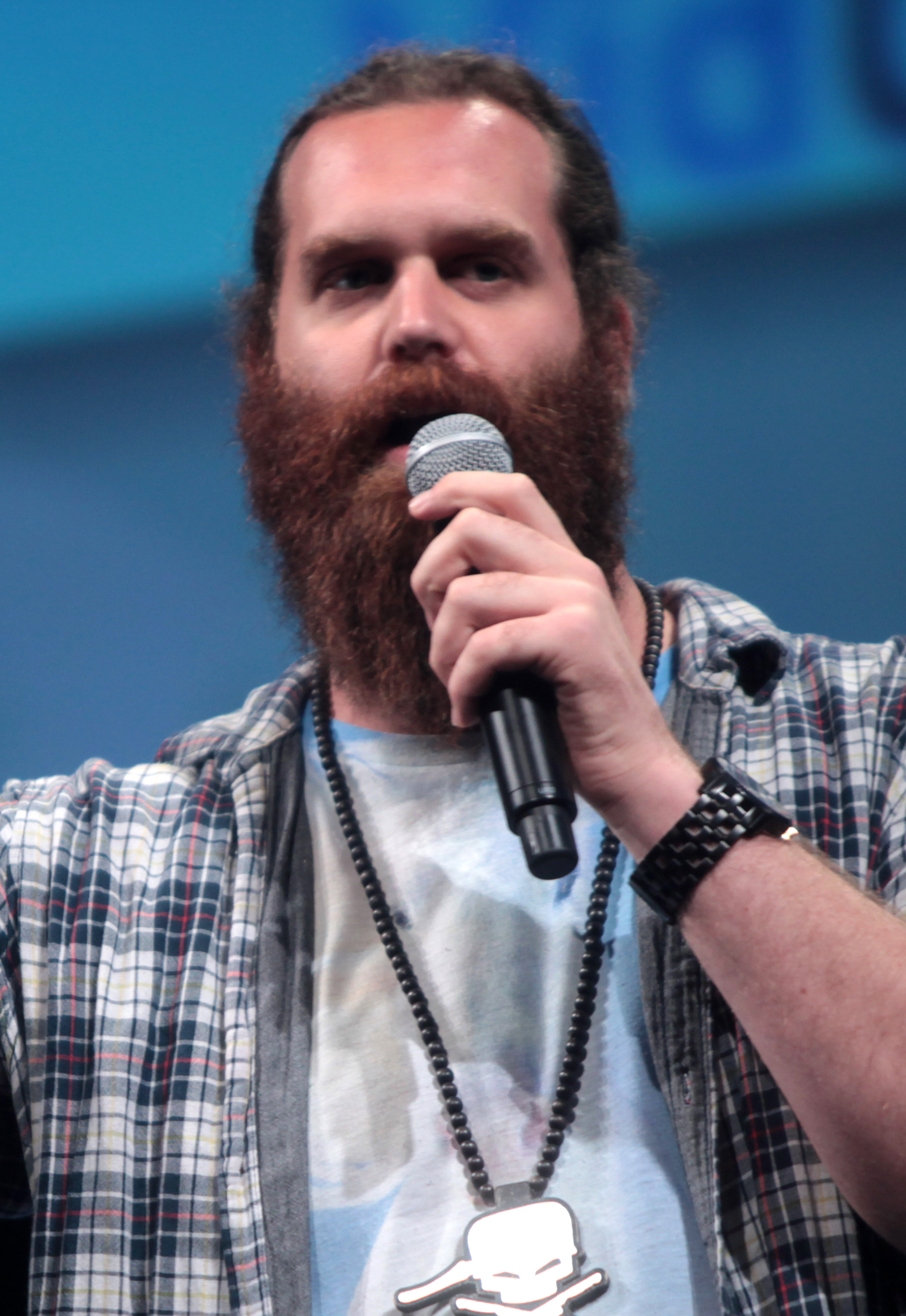 Harley Morenstein speaking at the 2014 VidCon on June 28, 2014.